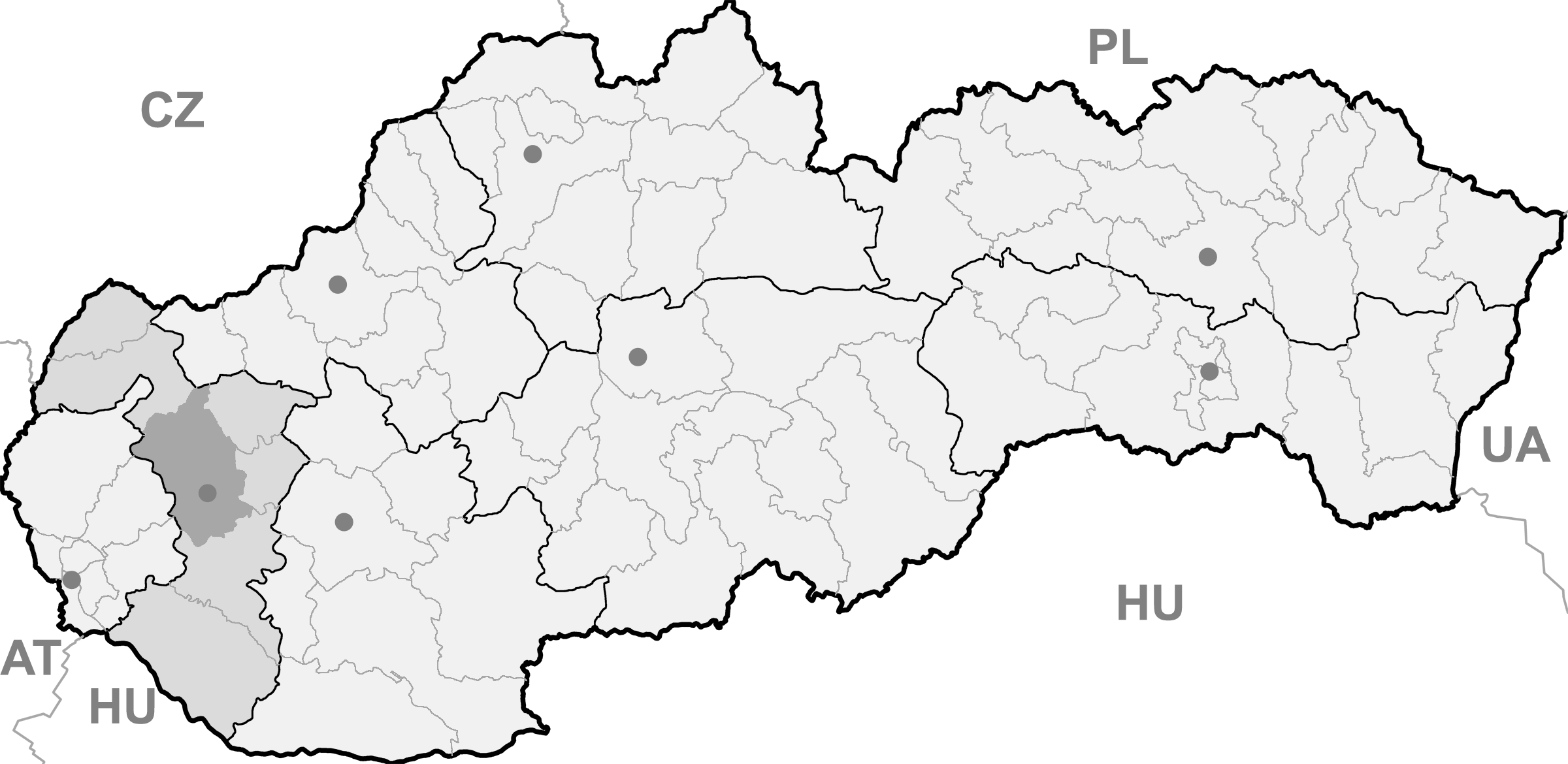 Map of Slovakia, Trnava district and Trnava region highlighted